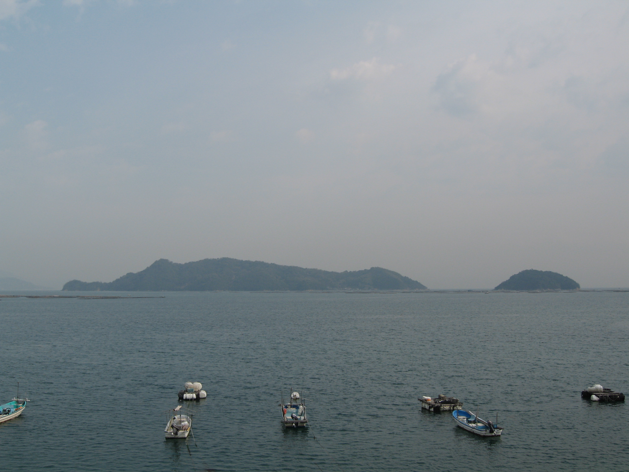 The island in left side is "Nasakejima" in Hiroshima, Japan. The other is "Konasakejima". "Ko" means "small" in Japanese.